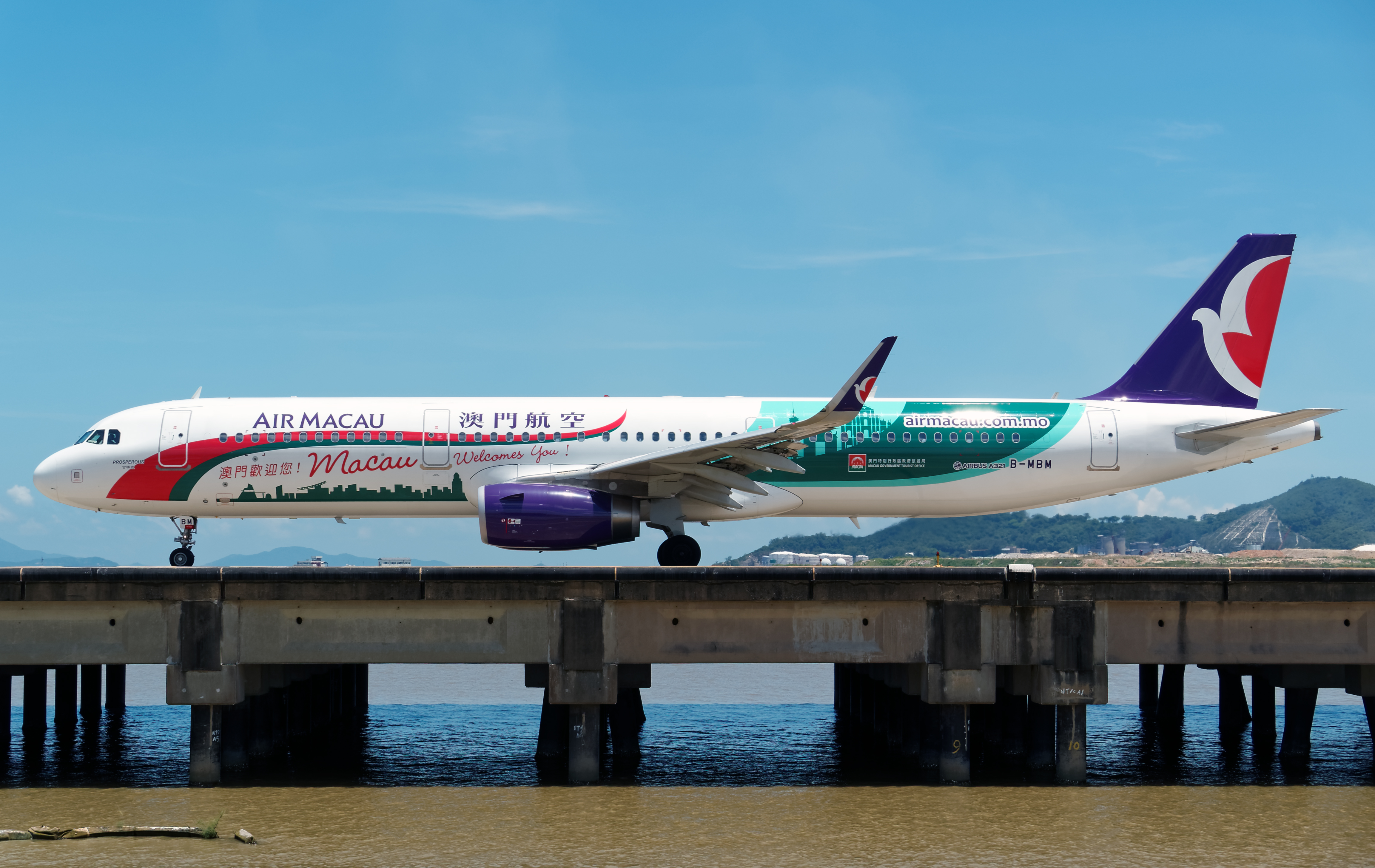 Airbus A321 of Air Macau (B-MBM) at Macau International Airport